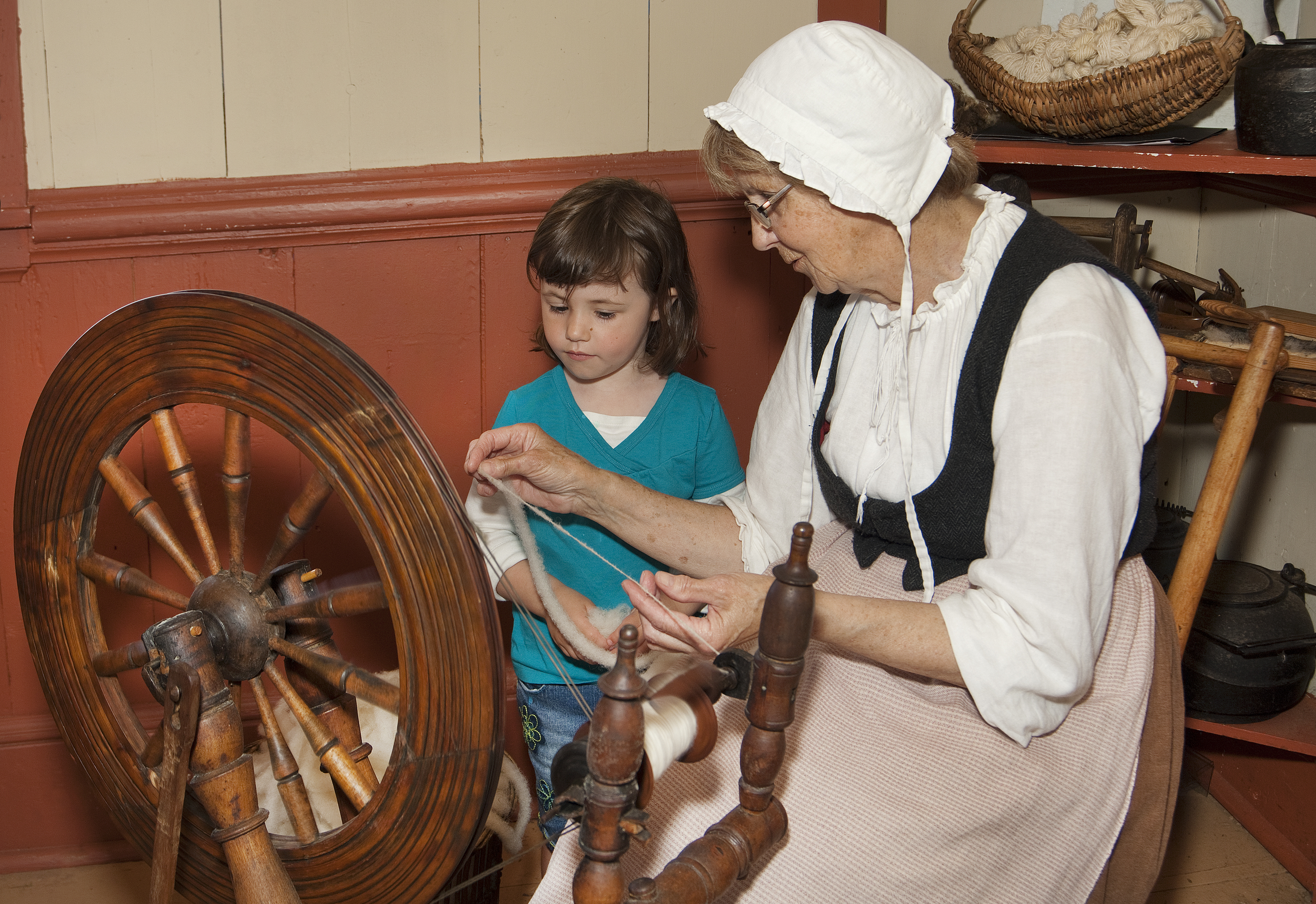 Spinning Wool at the Highland Village Museum in Iona, Nova Scotia.